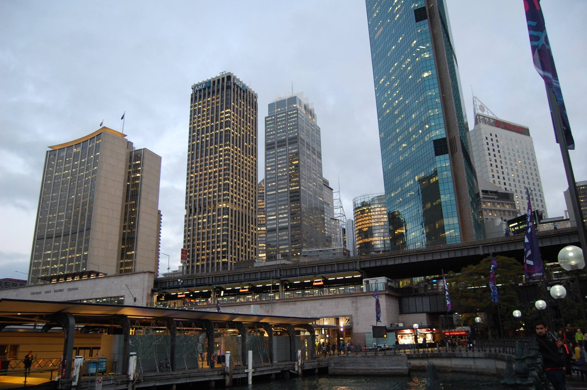 Circular Quay skyline, Sydney